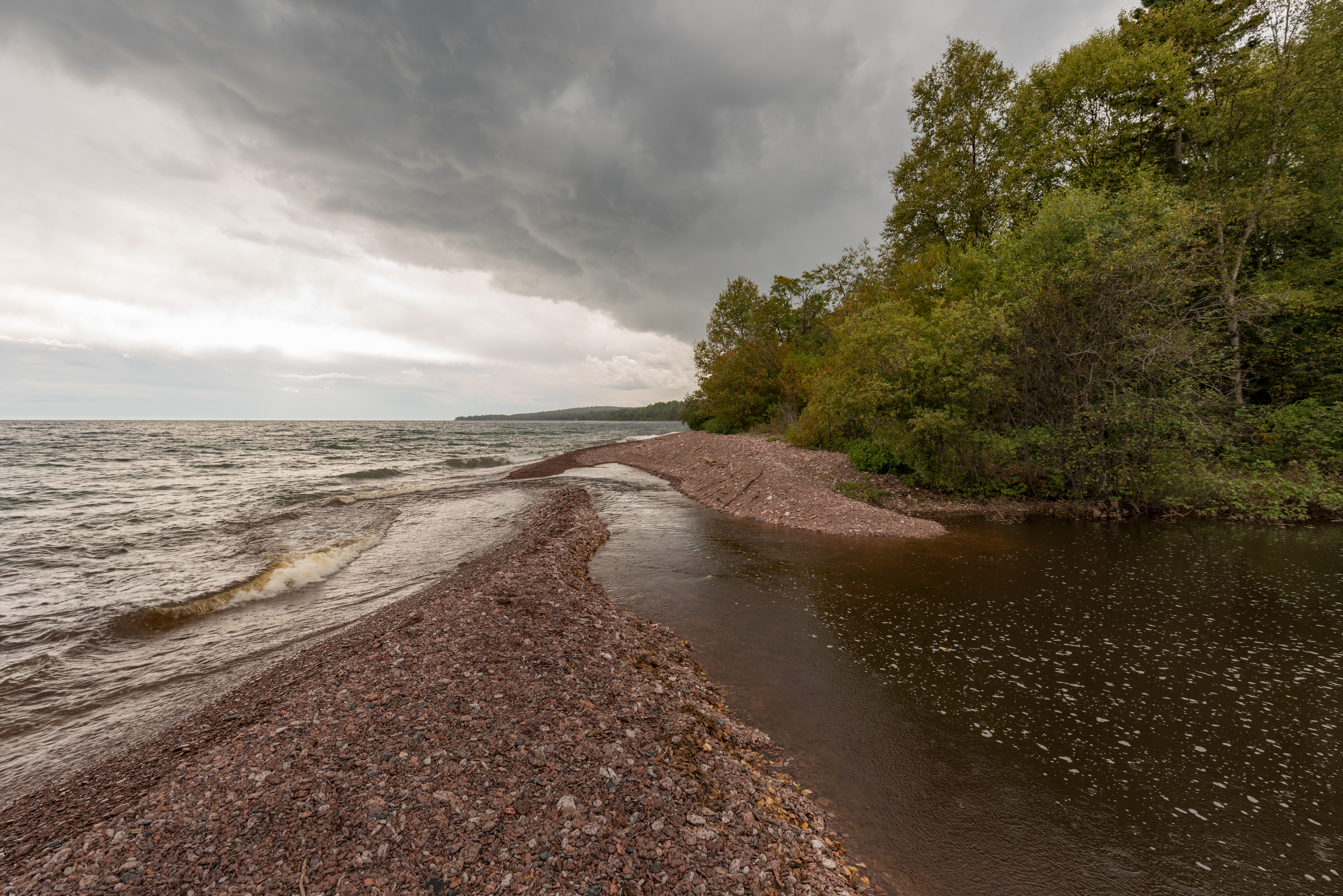 The Kadunce River State Wayside - the mouth of the Kadunce River at Lake Superior, Northern Minnesota.